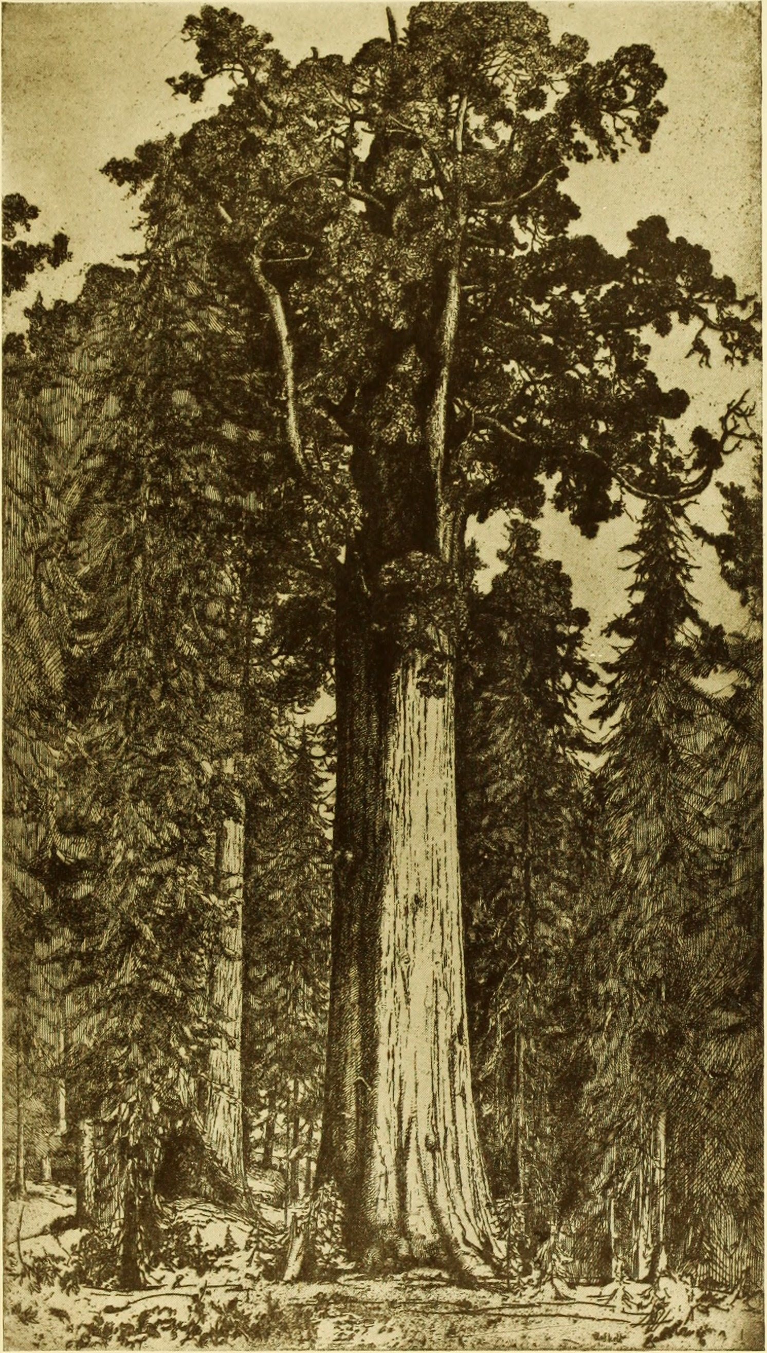 Title: Art in California : a survey of American art with special reference to Californian painting, sculpture and architecture past and present, particularly as those arts were represented at the Panama-Pacific International Exposition : being essays and articles by the following contributors Year: 1916 (1910s) Authors: Porter, Bruce Subjects: Panama-Pacific International Exposition (1915 : San Francisco, Calif.) Art, American Art Publisher: San Francisco : R.L. Bernier Text Appearing Before Image: THE HALF DOME—YOSEMITE VALLEY Lithograph by Joseph Pennell Courtesy Hill Tolerton Plate No. 262 OR MICHELE—FLORENCECourtesy Hill Tolerton By Ernest O. Roth Plate No. 263 LA MAISON MELINE—PARISCourtesy Hill Tolerlon By Herman A. Webster Plate Xo. 264 THE NEW TALMUDCourtesy Hill Tolerton - - -- t%By Wm. Auerbach Levy Plnte No. 265 Text Appearing After Image: GENERAL SHERMAN—SEQUOIA NATIONAL PARK By Ernest Haskell Courtesy Hill Tolerton Plate No. 266